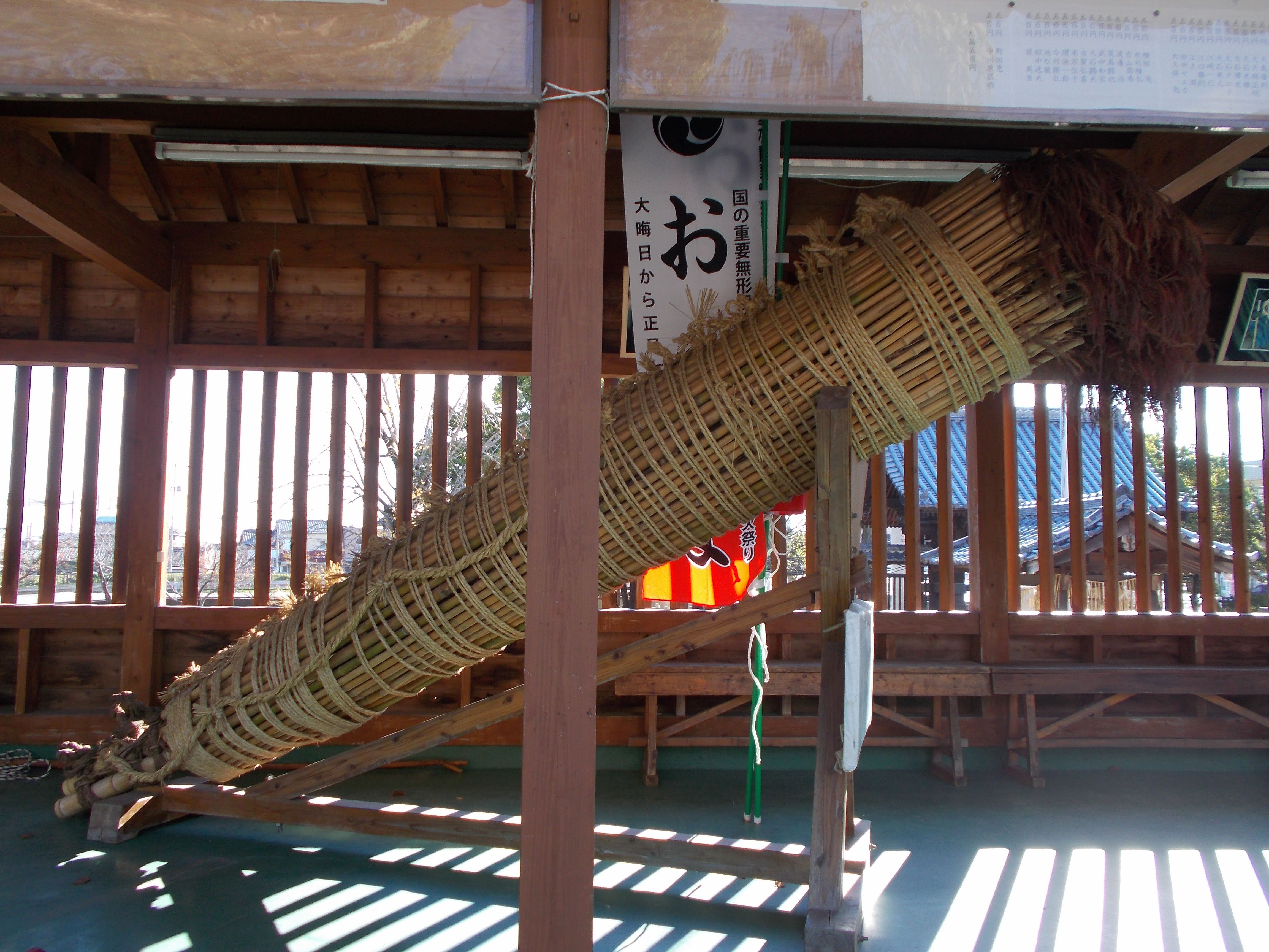 A big torch in Daizenji Tamatare-gu, Kurume, Fukuoka, Japan. It is used for the Oniyo fire festival held on January 7 every year.